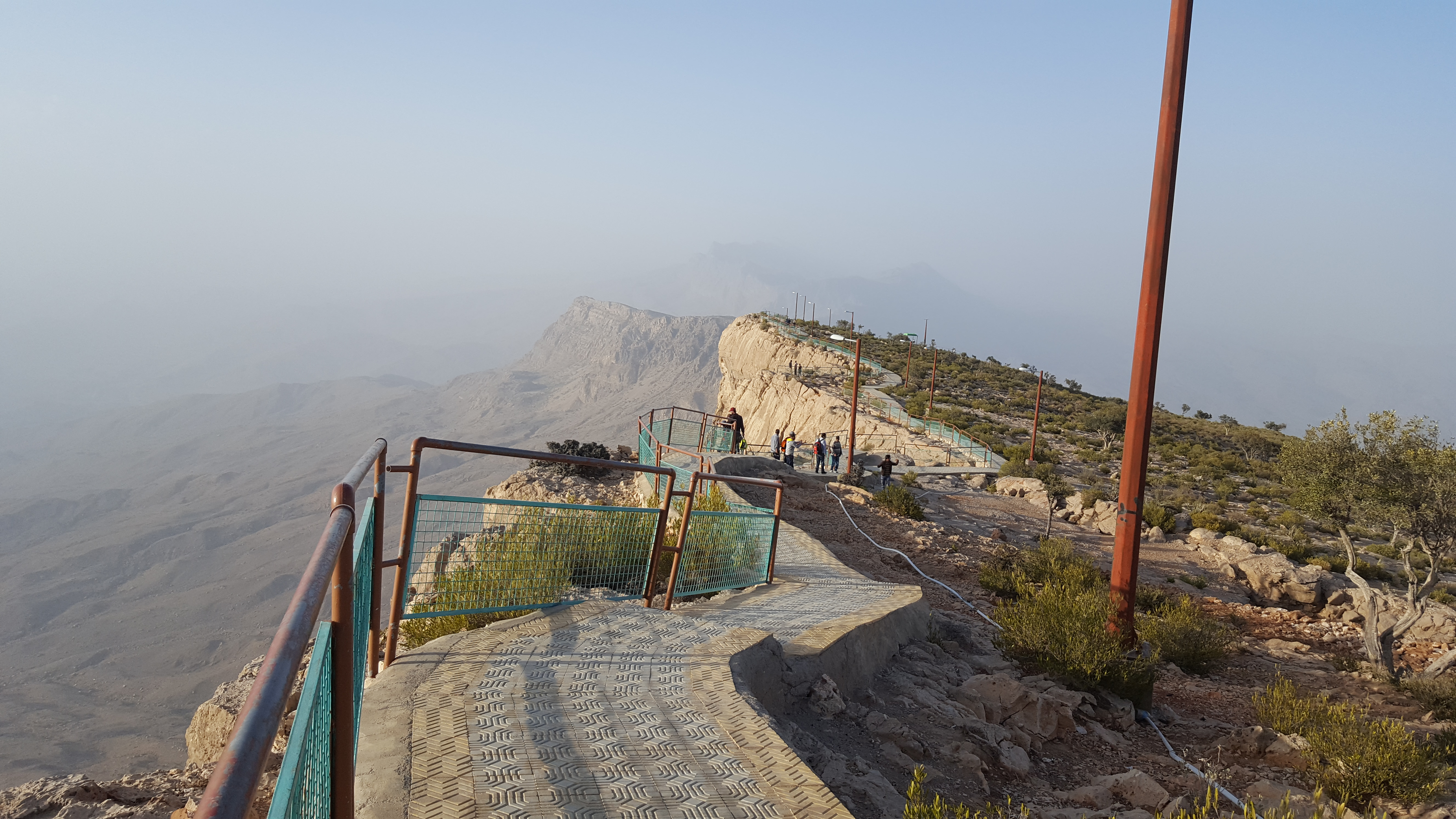 Gorakh Hill Station Edge